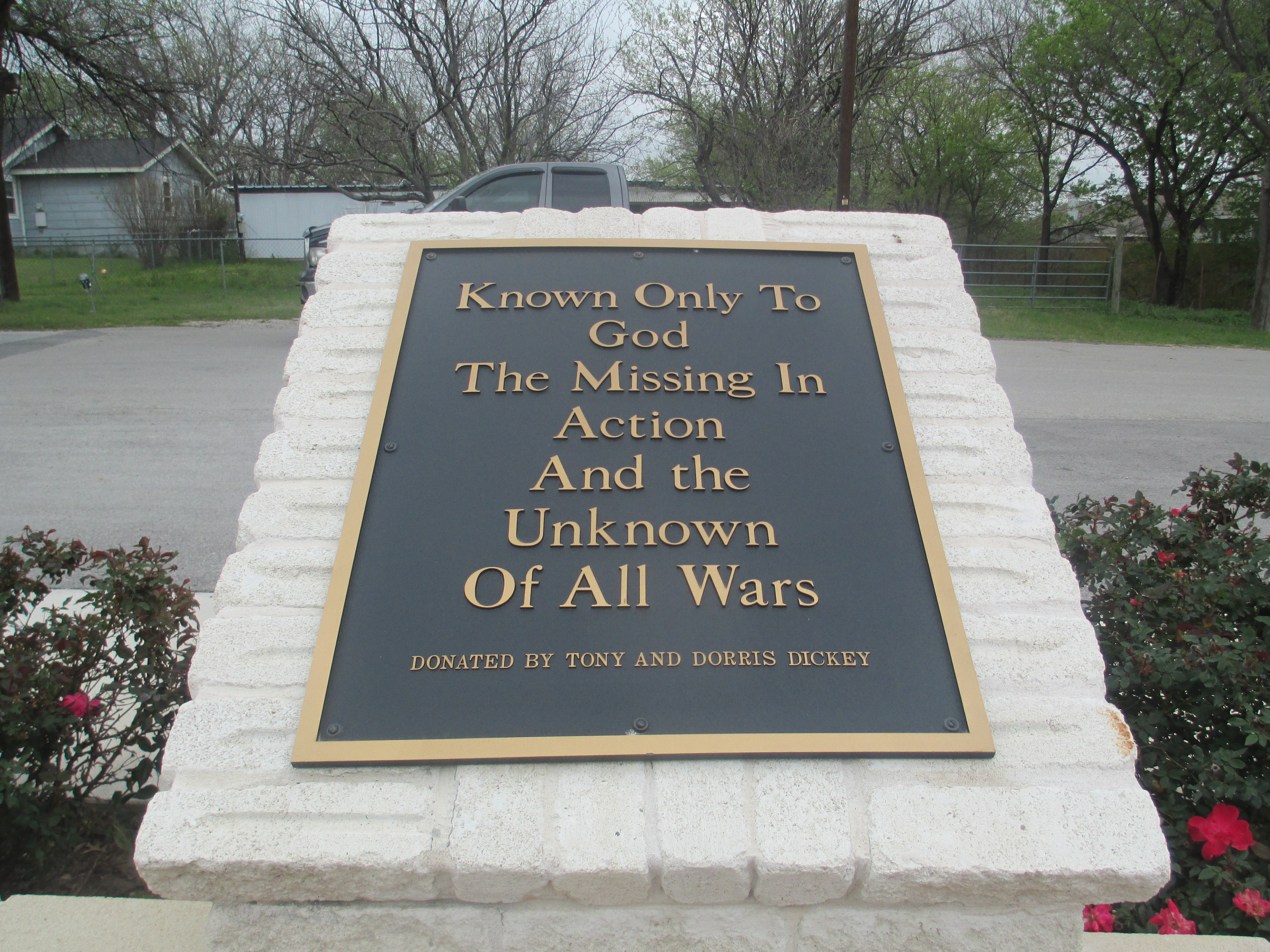 I took photo of "Missing in Action" plaque at Veterans Memorial Park in Rhome, TX, with Canon camera, April 7, 2013. Billy Hathorn (talk) 20:11, 12 April 2013 (UTC)